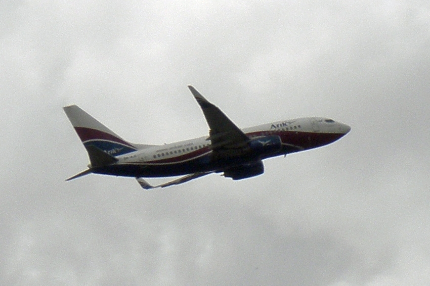 An Arik Air's Boeing 737 on take off from Lagos International Airport.